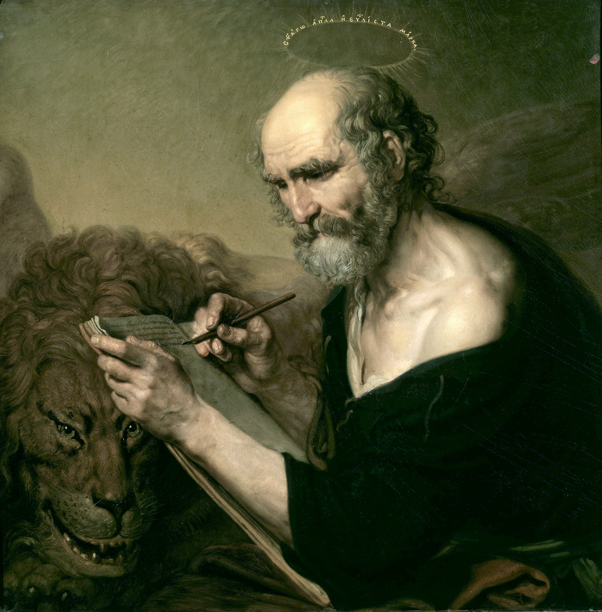 Icon from the royal gates of the central iconostasis of the Kazan Cathedral in St.-Petersburgh